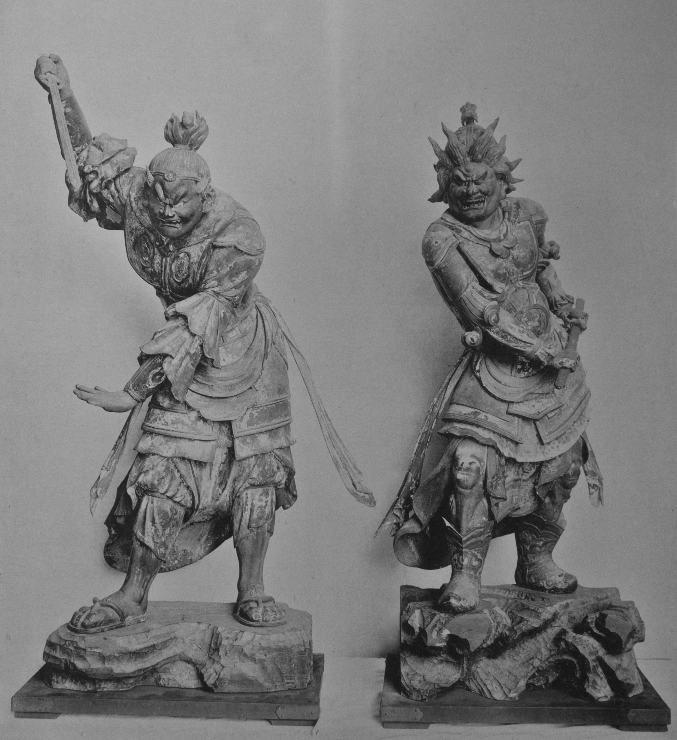 Kofukuji, Nara, Japan